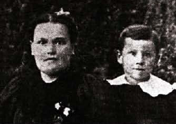 That's the Colonel Sanders as a seven-years old boy, pictured with his mother